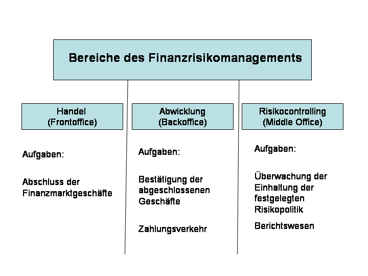 shows the different departments working in a financial management department graphic done by myself